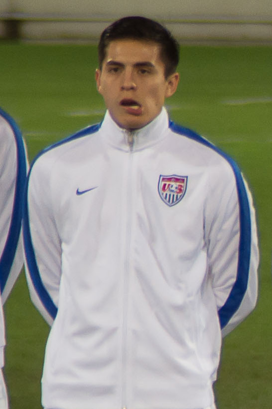 USA-Columbia, FIFA U20 World Cup